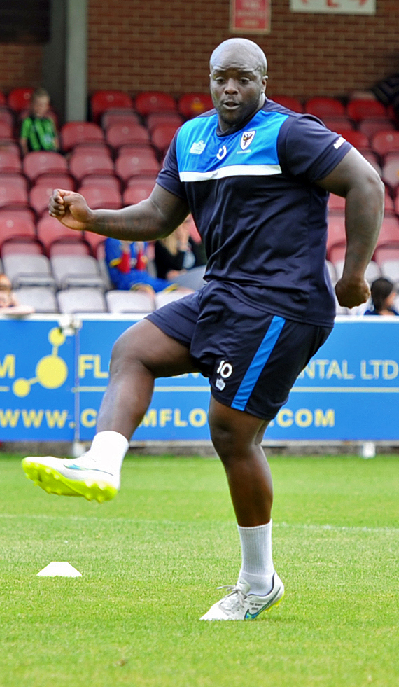 AFC Wimbledon players train during the club's open day at The Cherry Red Records Stadium, 4 August 2015